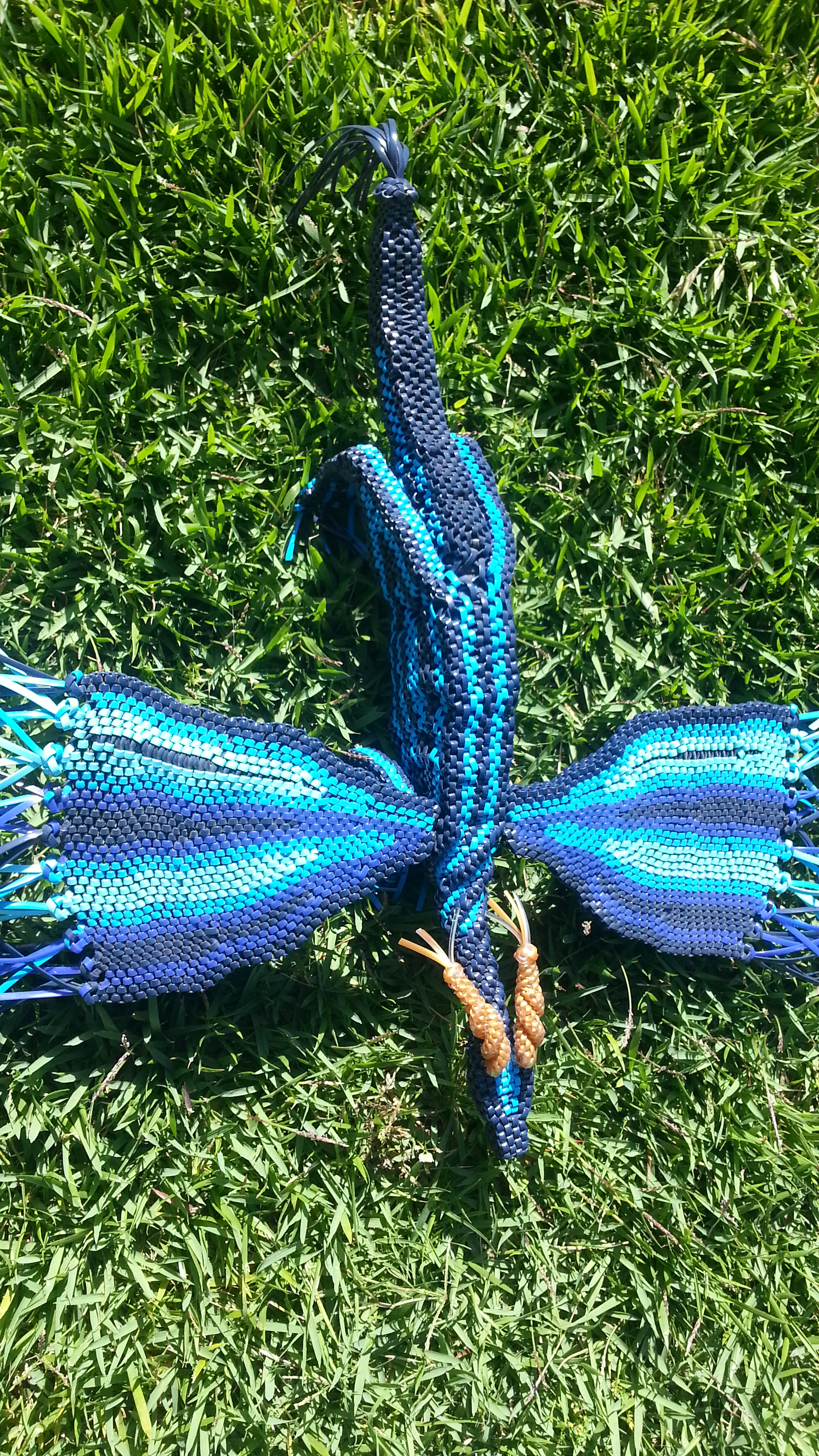 This is a dragon made with lanyard (scoubidou) strings. More than 60 different strings were used to make it. Here is a tutorial of how to make it , check it out on this link